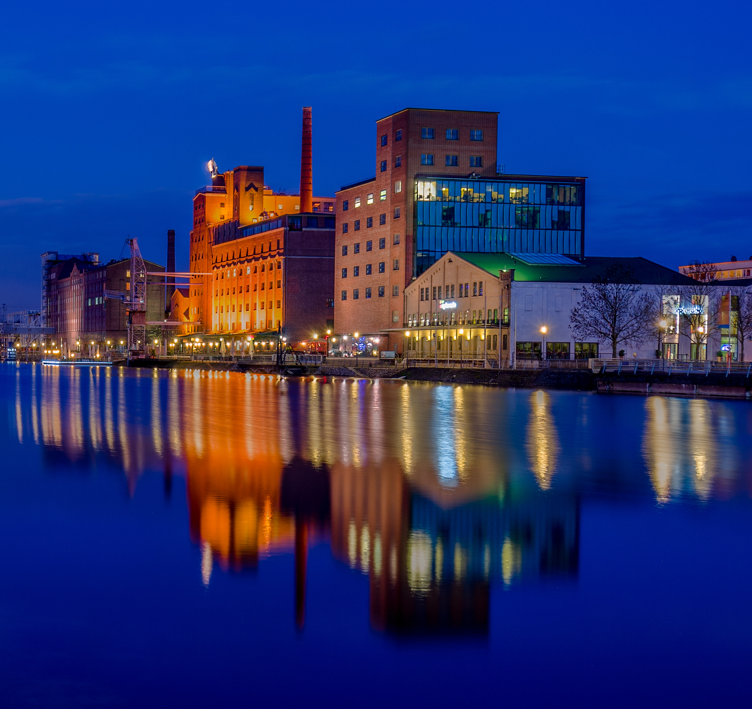 Nightly view of Duisburg Inner Harbour at blue hour with Werhahnmühle and Museum Küppersmühle